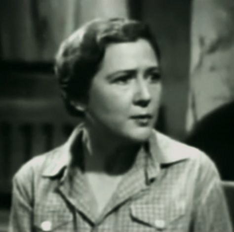 Mary MacLaren in A Lawman Is Born (1937) - cropped screenshot